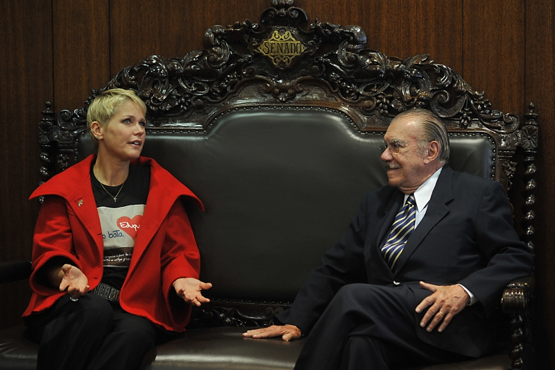 Xuxa e o então presidente do senado federal, José Sarney.